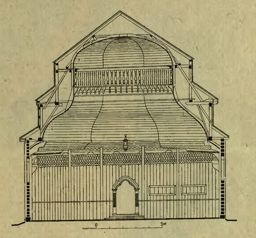 Section of synagogue in Nowe Miasto nad Pilicą